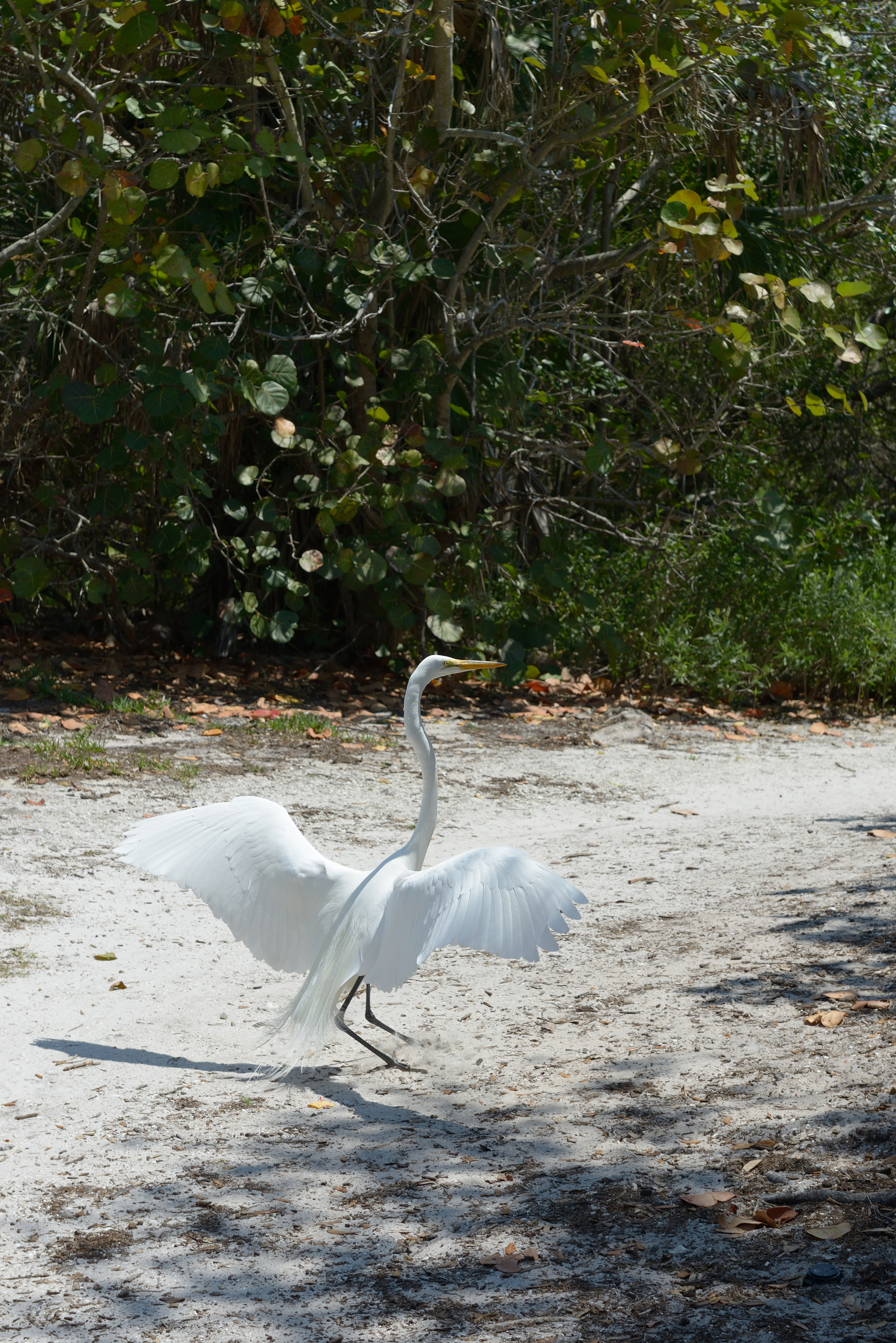 White heron (Ardea alba) in the Durante Community Park on Longboat Key in Florida. Sea grape (Coccoloba uvifera) tree i the back